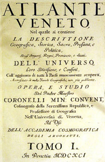 Frontispiece of "Atlante Veneto, nel quale si contiene La Descrittione... dell' Universo..."